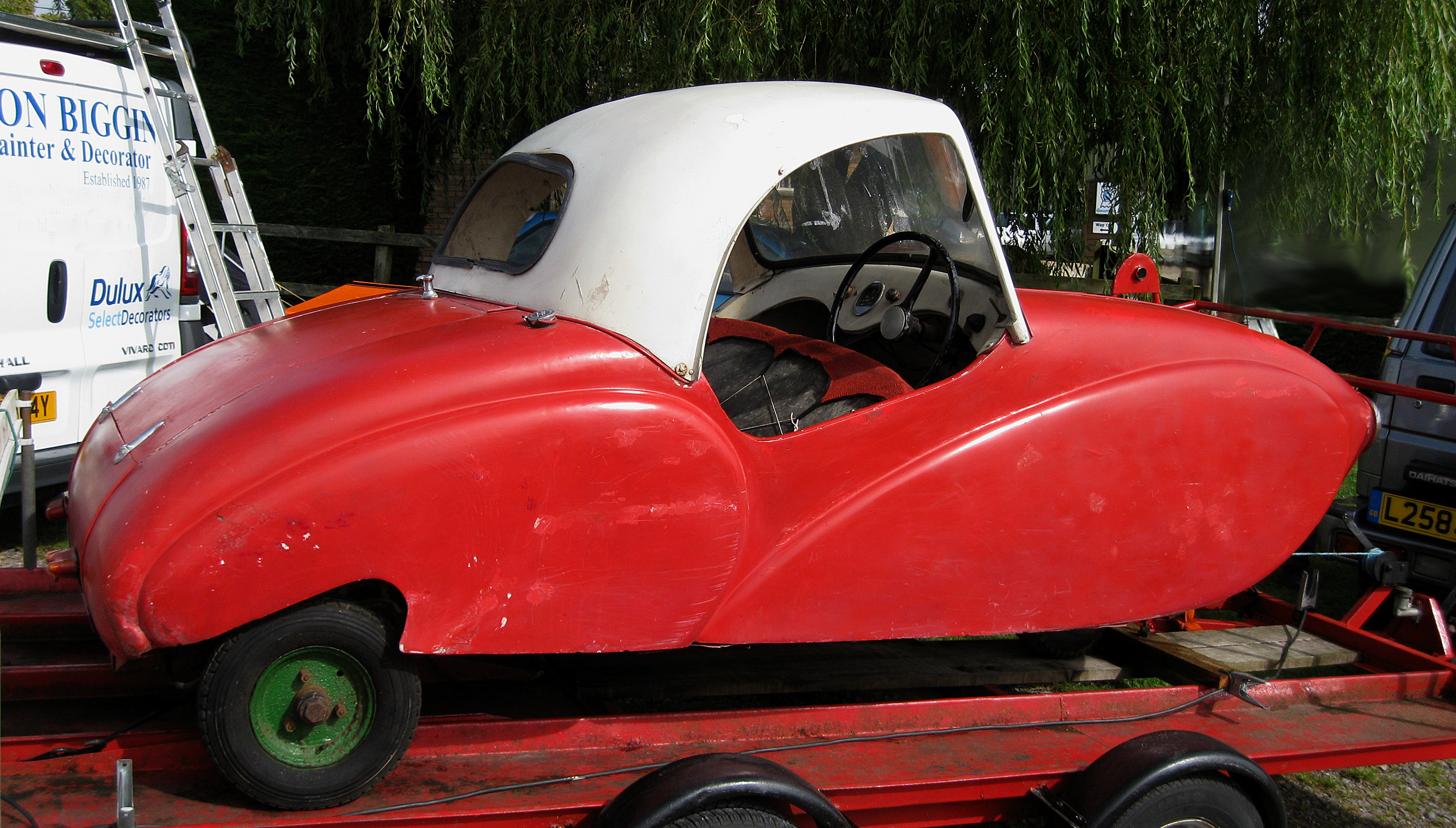 1954 Allard Clipper at the 2011 National Microcar Rally, held at the Atwell-Wilson Motor Museum, Calne, Wiltshire.